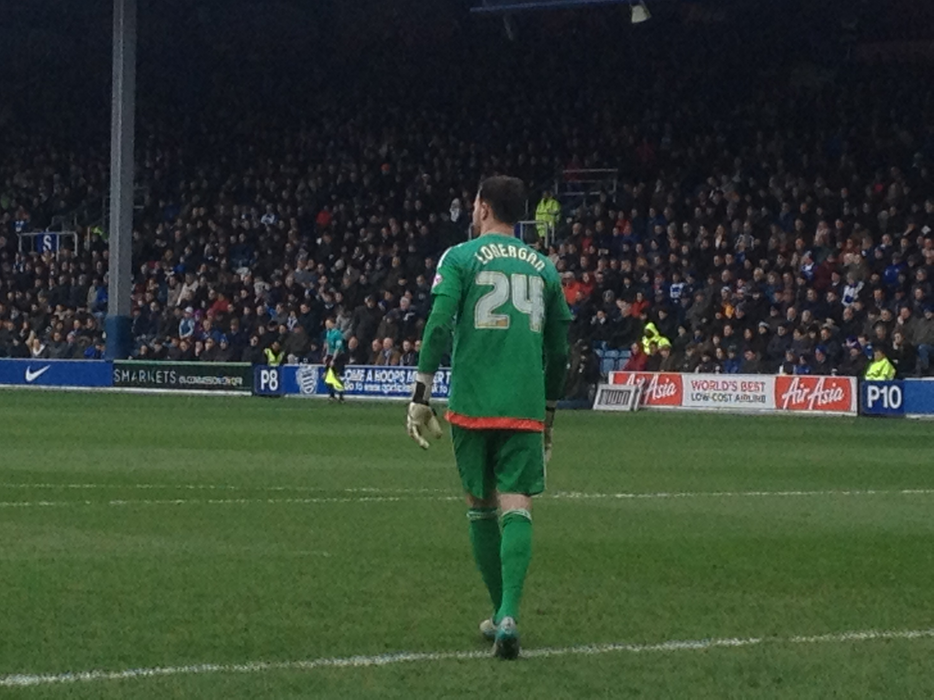 Andy Lonergan as a first choice goalkeeper during the match against Queens Park Rangers.